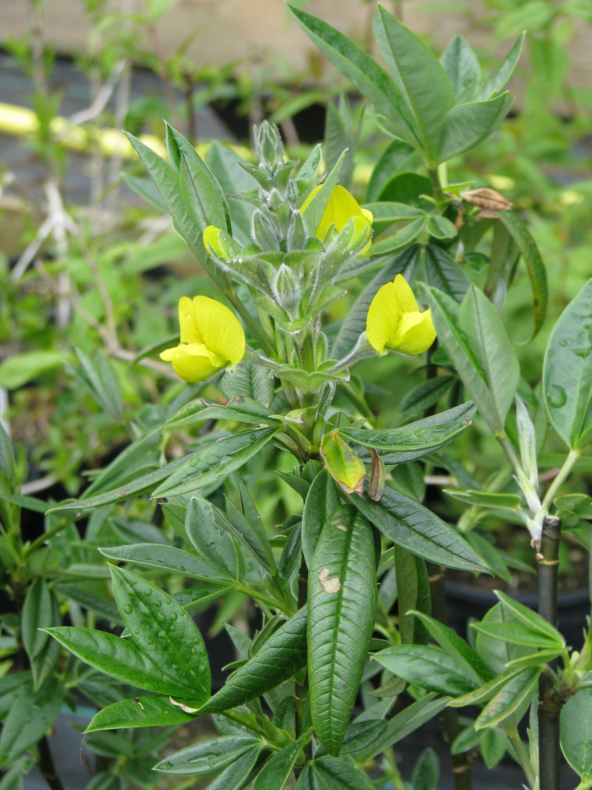 Piptanthus nepalensis